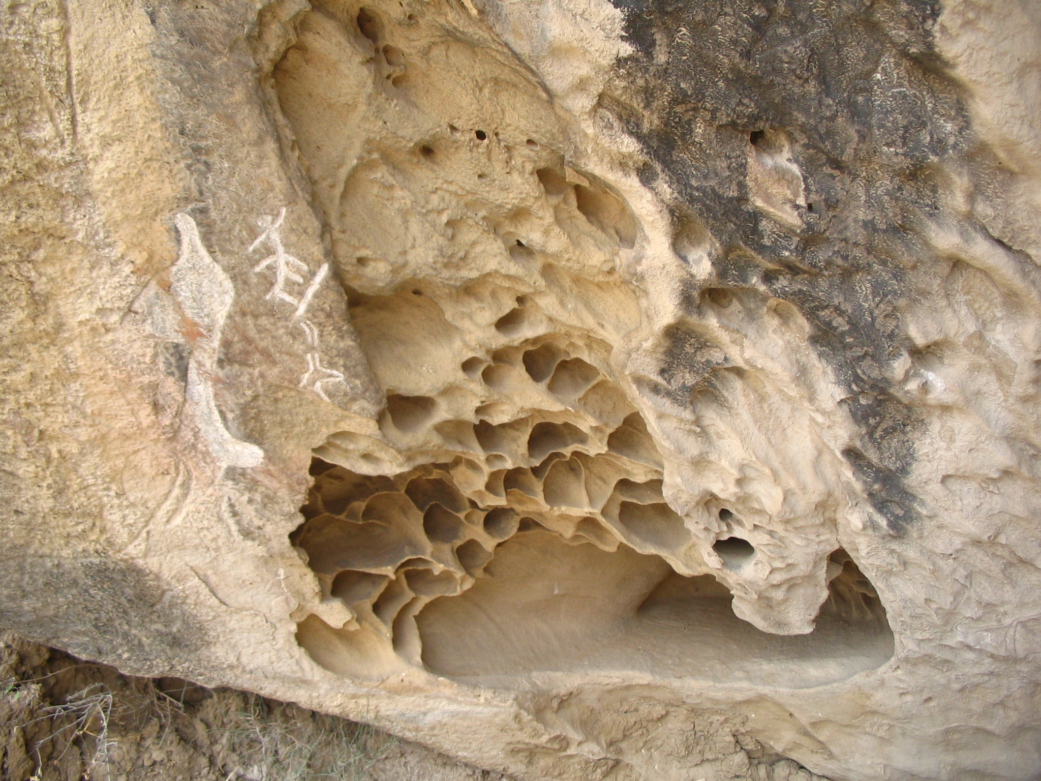 Salt weathering of sandstone near Qobustan, Azerbaijan. Petroglyphs attributed to prehistoric humans are visible on the left side of the image.